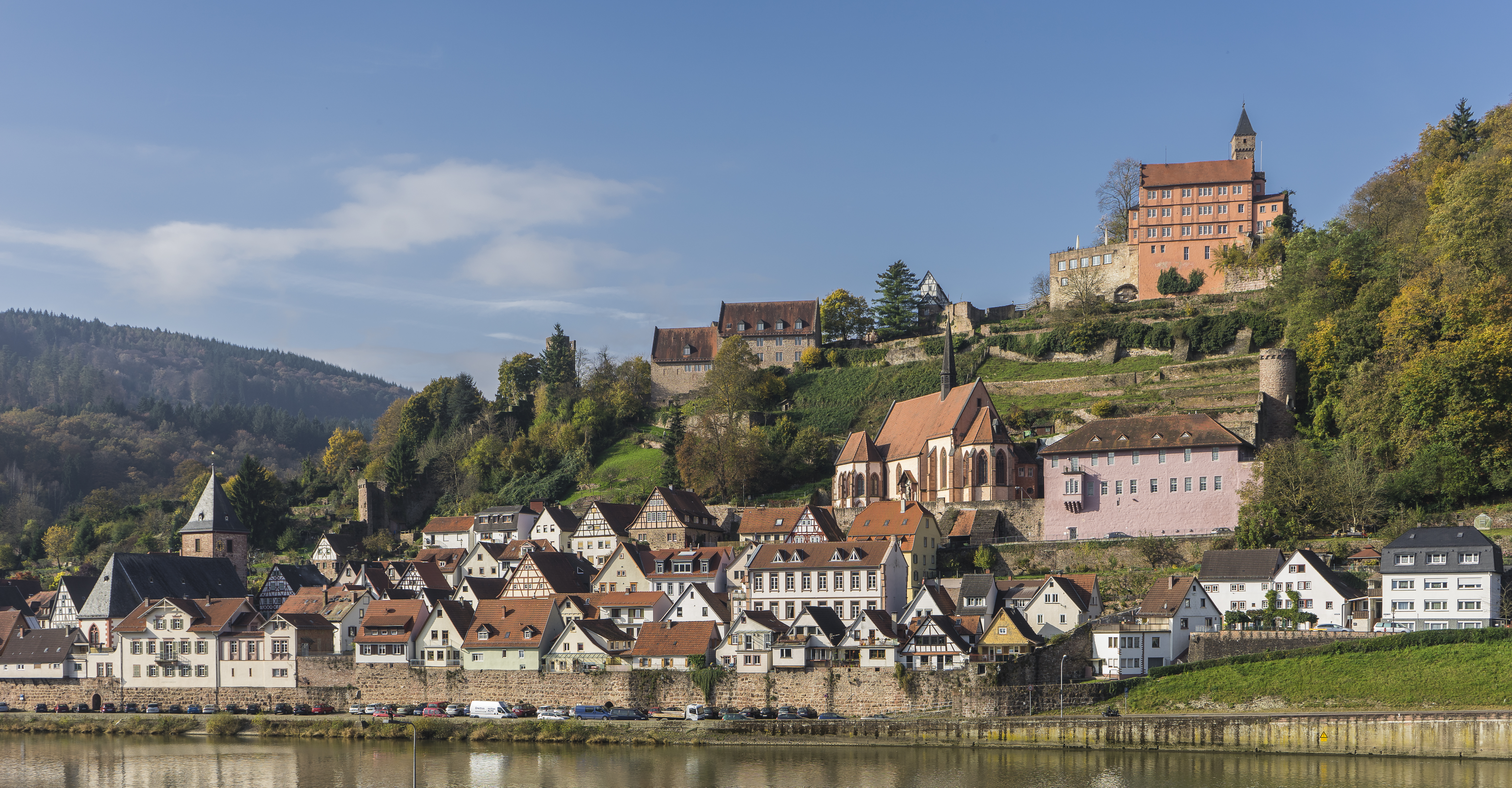 Hirschhorn at River Neckar. Hirschhorn und Neckarsteinach together are a hessian enclave in the Neckar-Odenwald-Kreis.